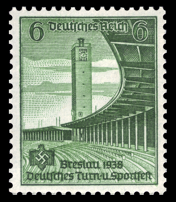 stamp series German gymnastic and sport festival, juni 24th till juni 31st 1938 in Wrocław Ausgabepreis: 6 Pfennig First Day of Issue / Erstausgabetag: 18. November 1938 Michel-Katalog-Nr: 666 (Deutsches Reich)